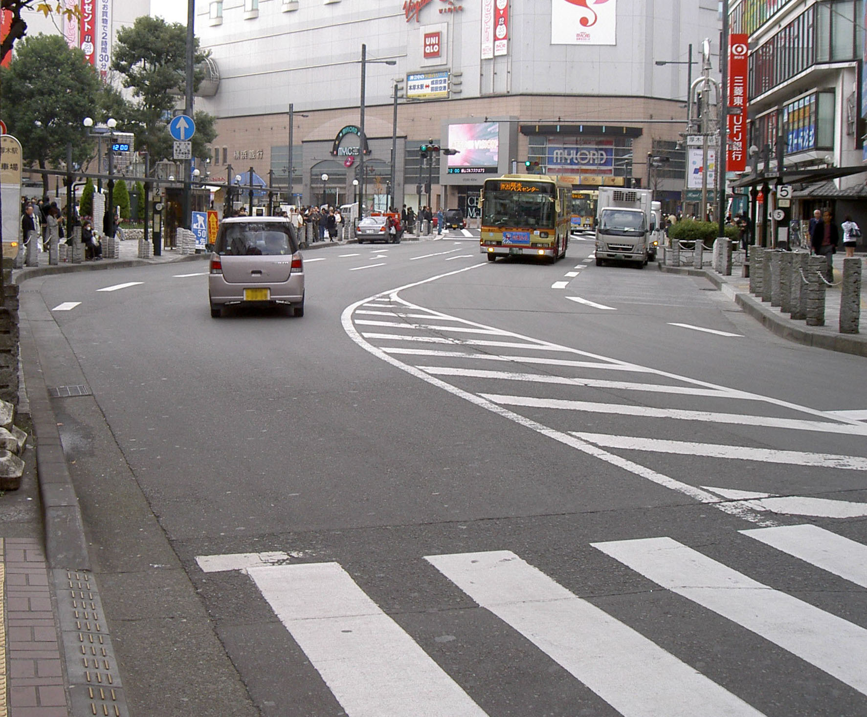 Kanagawa prefectural road route 602 ja: 神奈川県道602号本厚木停車場線